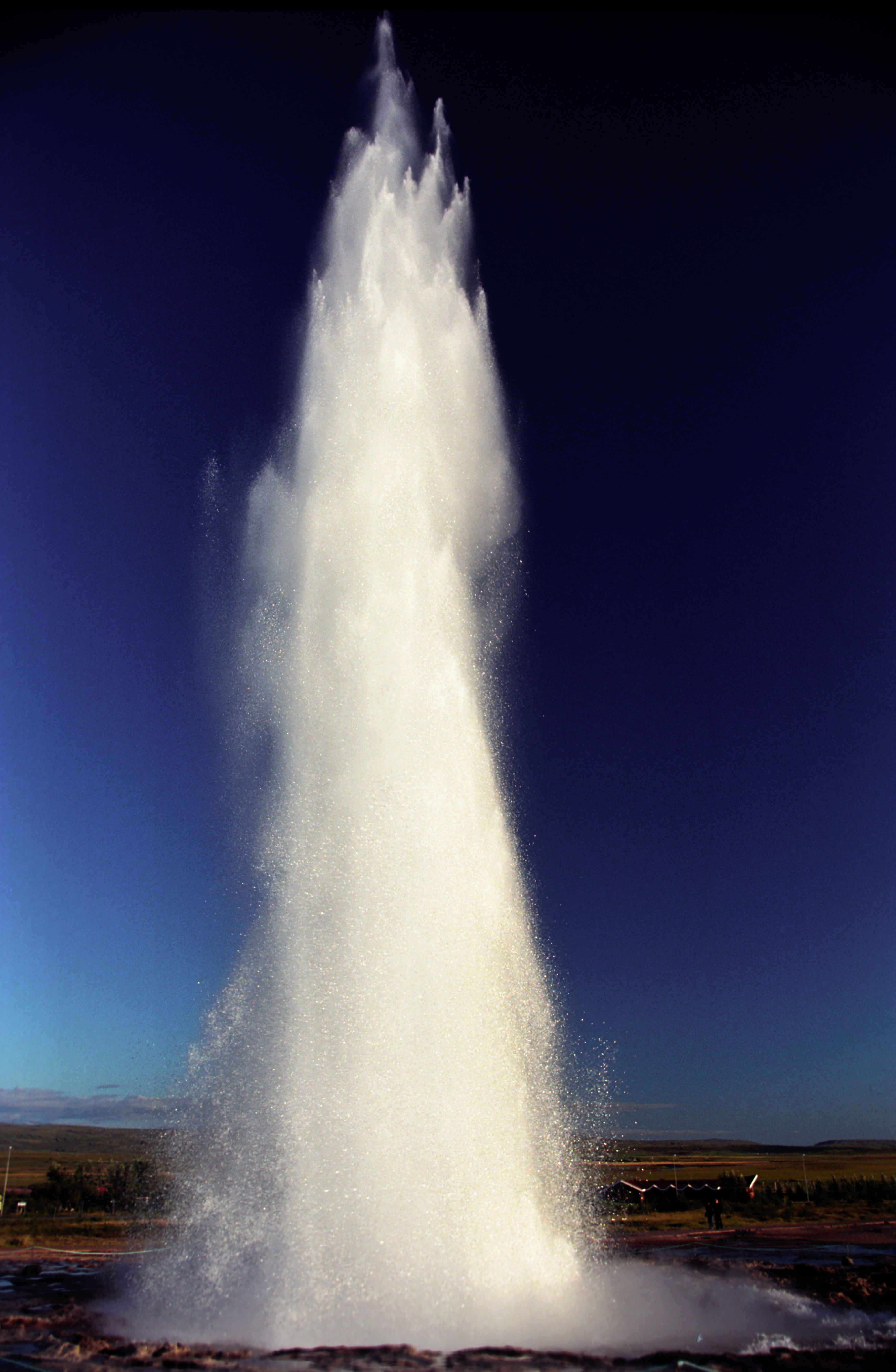 Geysir Strokkur